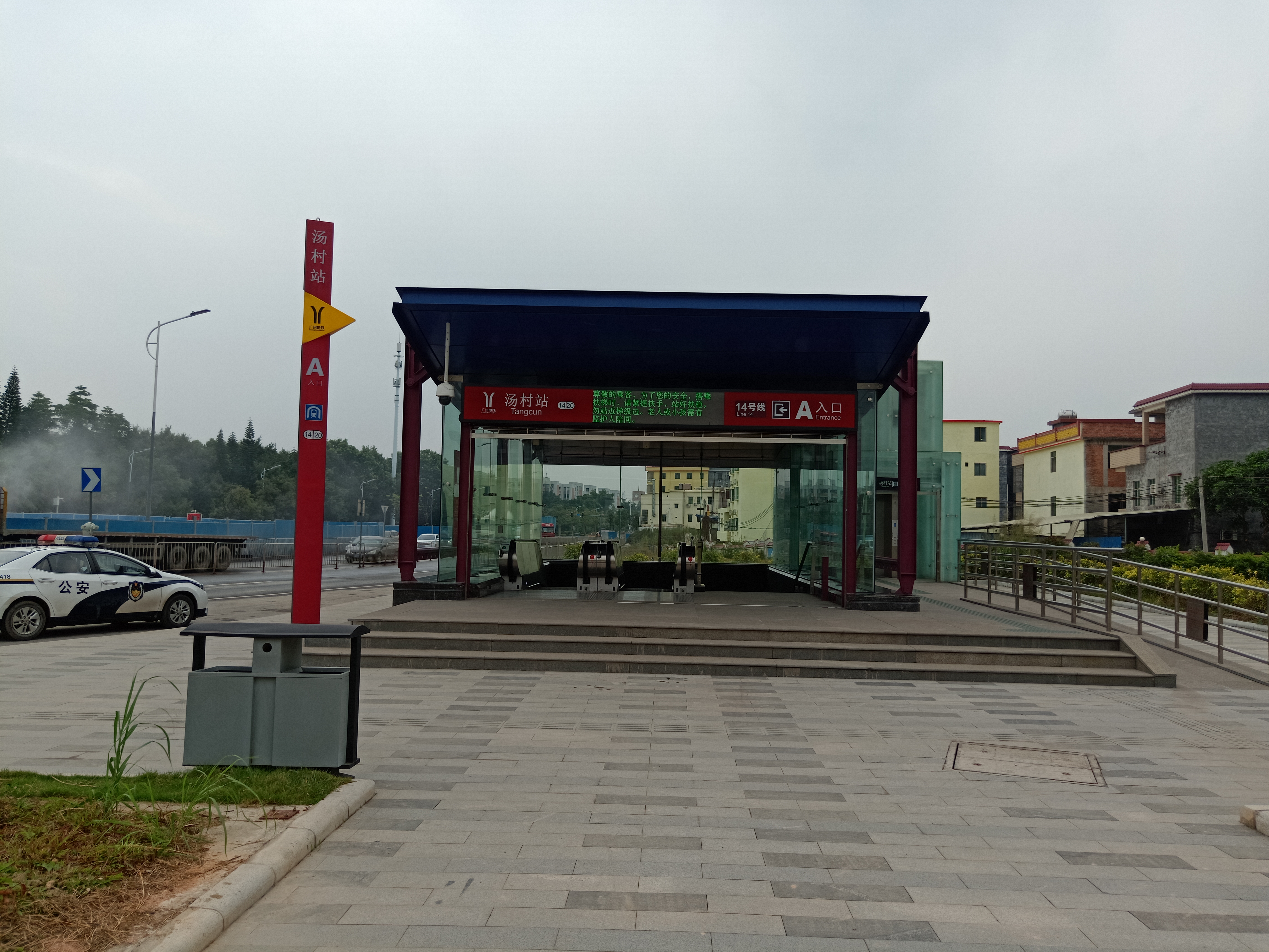 Exit A for Tangcun Station in Guangzhou Metro